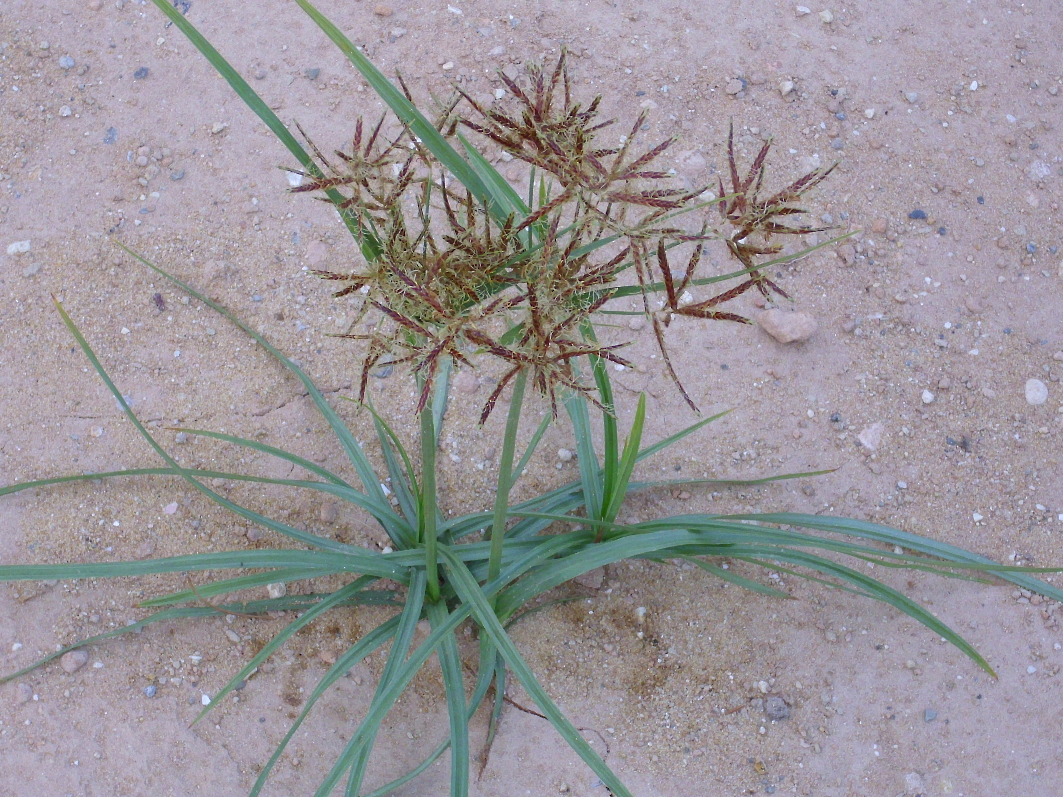 Cyperus rotundus habit, La Mata, Torrevieja, Alicante, Spain.